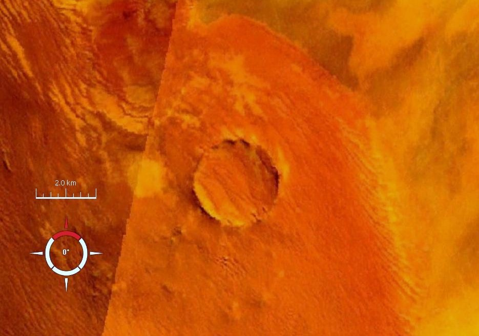 Landsat image of Roter Kamm meteorite impact crater in the Karas province of southern Namibia